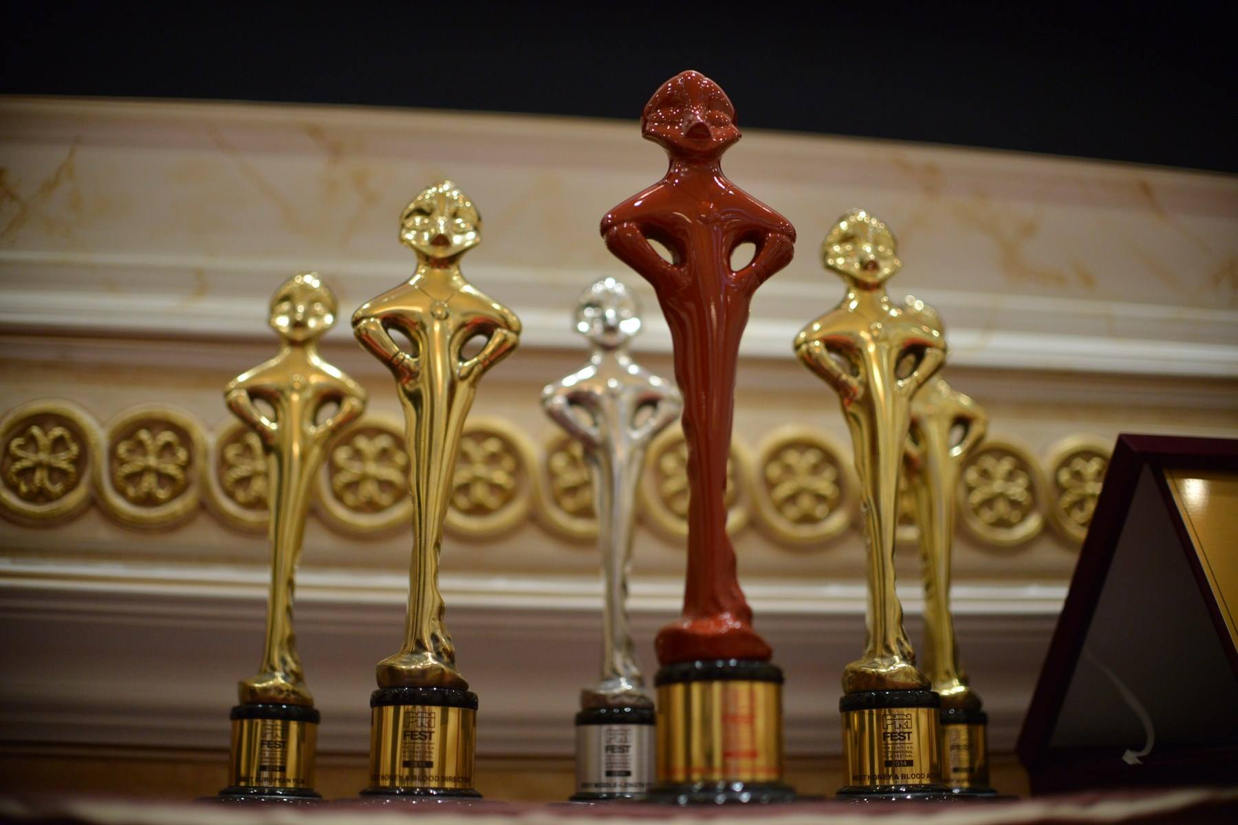 Awards at PriFilmFest, 2014.